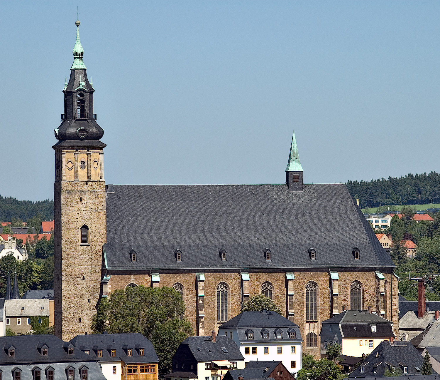 This image shows the church "St. Wolfgangskirche" in Schneeberg (Saxony, Germany).